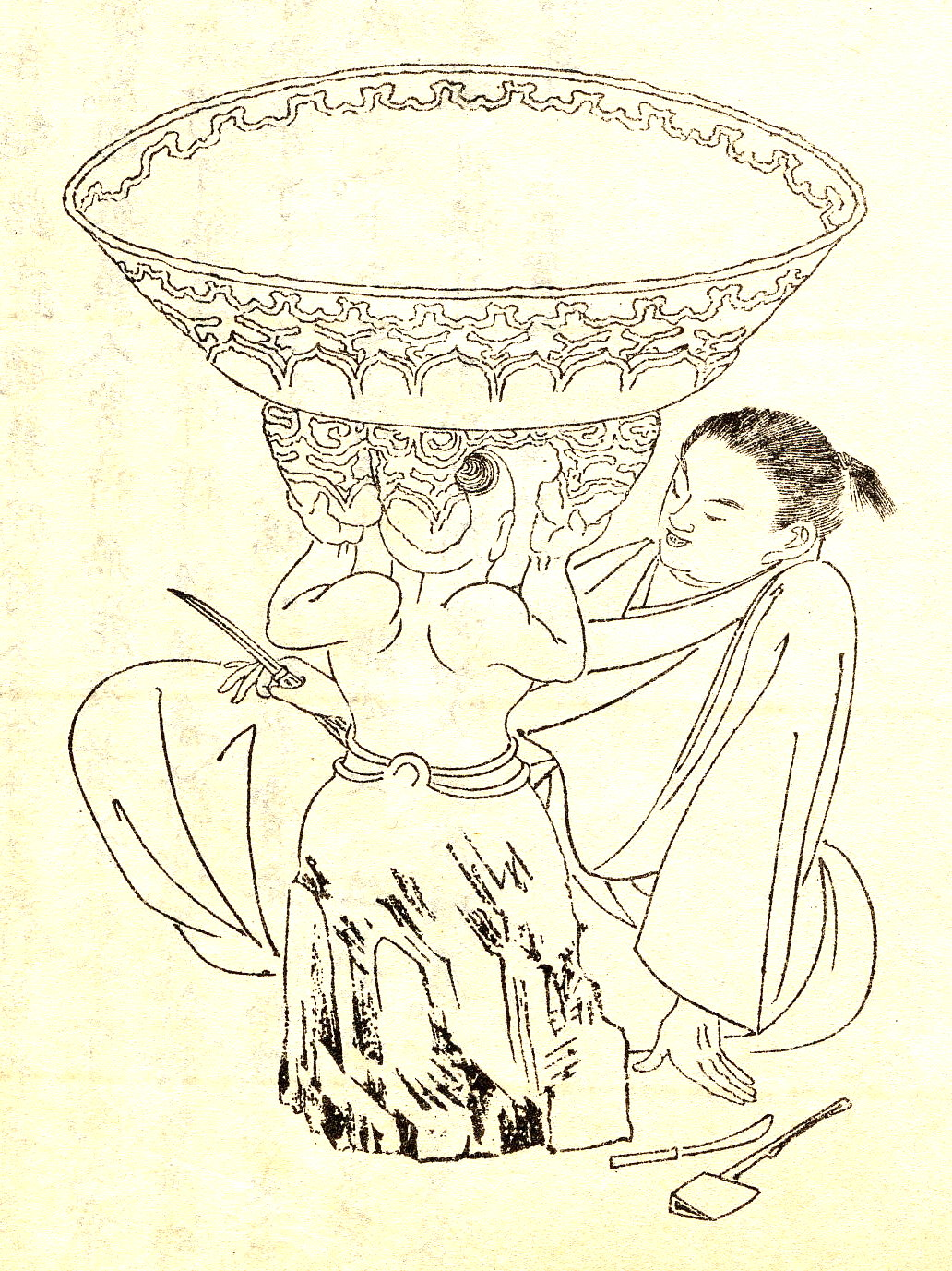 Kaya Shin-nō(賀陽親王) was a Japanese politician and court noble in the Heian era.